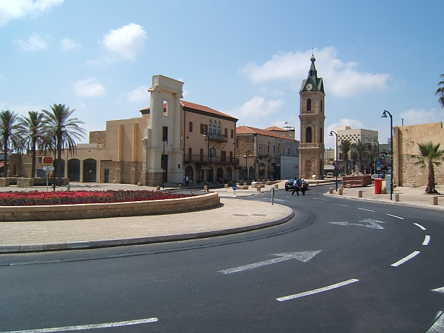 Yaffo renew Sarahiya house